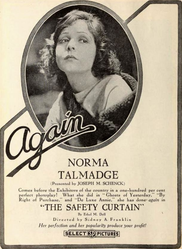 Advertisement for the American drama film The Safety Curtain (1918) with Norma Talmadge, on page 6 of the July 20, 1918 Exhibitors Herald.